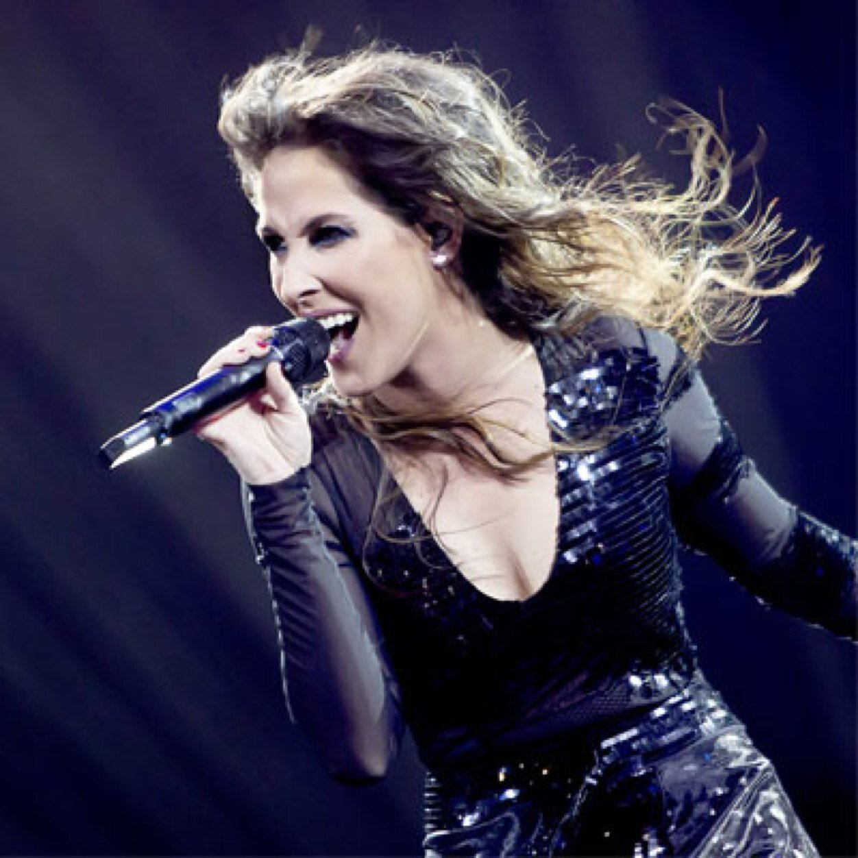 Malu durante el Tour SI